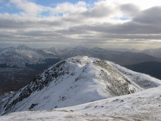 Summit ridge of Beinn Chaluim. From Stob Glas (1025m) towards the south top.